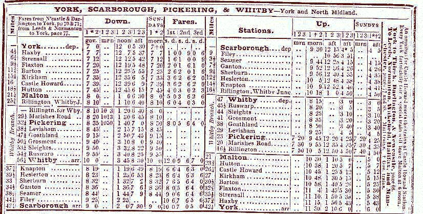 Taken from . This is an 1850 publication. 03:05, Nov 8, 2004 (UTC)